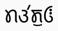 specimen